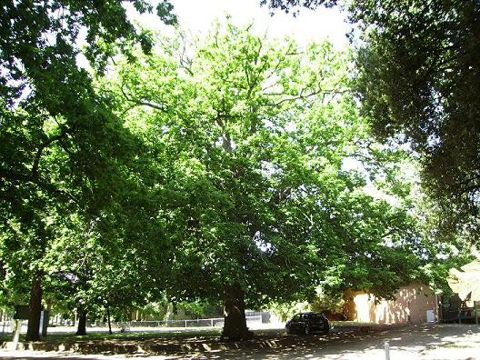 Picture of old Algerian Oak tree in Kyneton Botanical Gardens, Victoria, Australia.